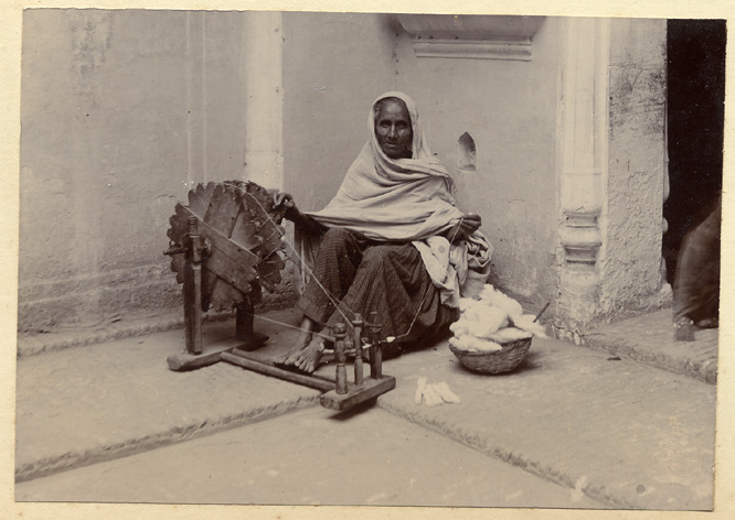 Spinning-- a photograph from the 1890's Source: ebay, June 2005